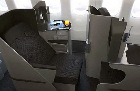 The new Garuda Indonesia B 777 300 ER Executive class